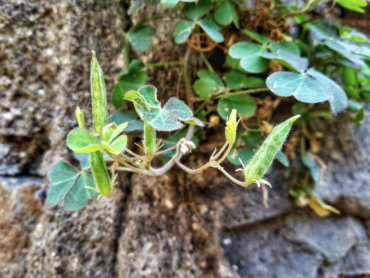 Fruit of Oxalis corniculata